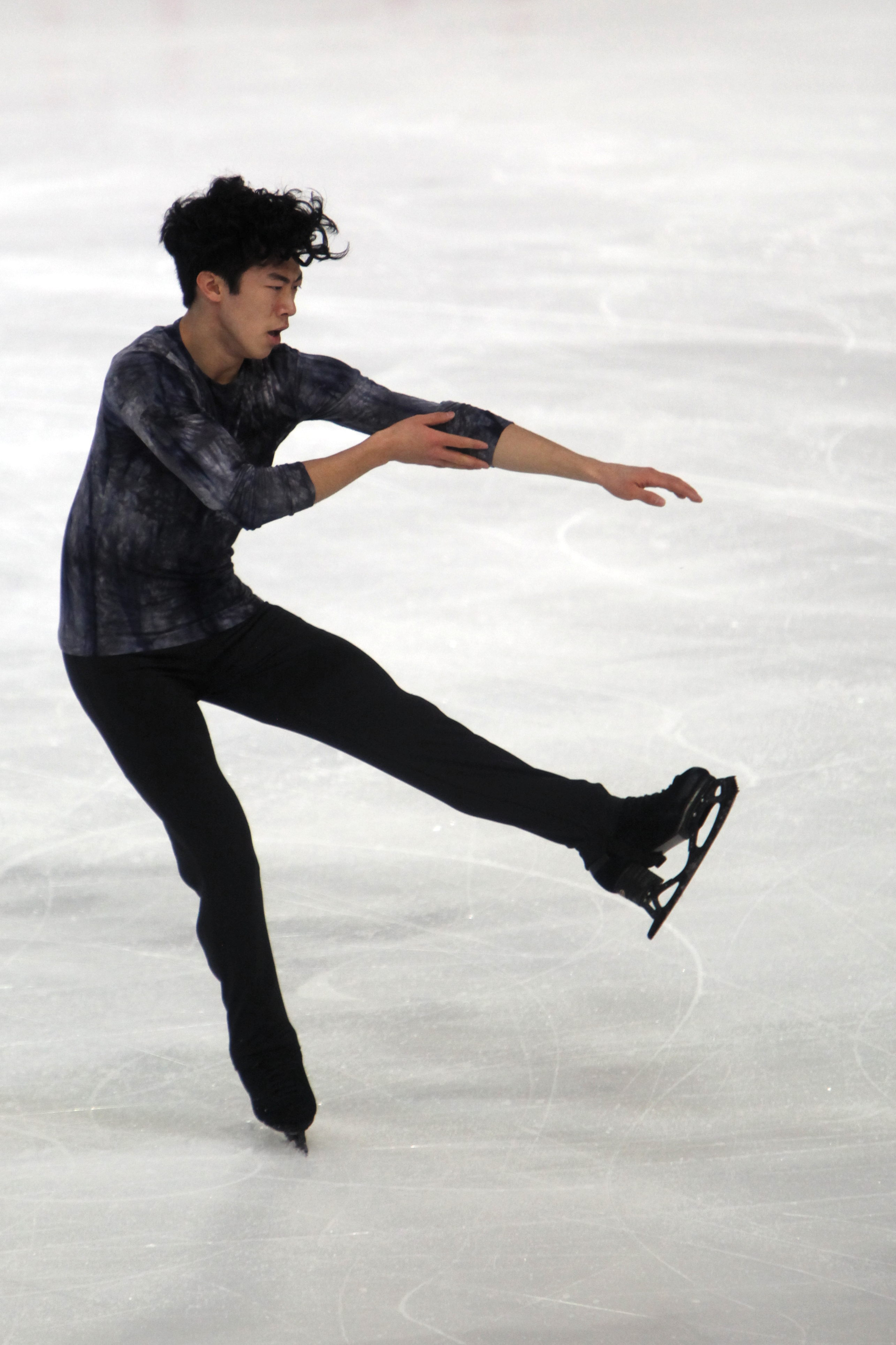 Nathan Chen during the men's singles free skating at the Internationaux de France de Patinage 2018.